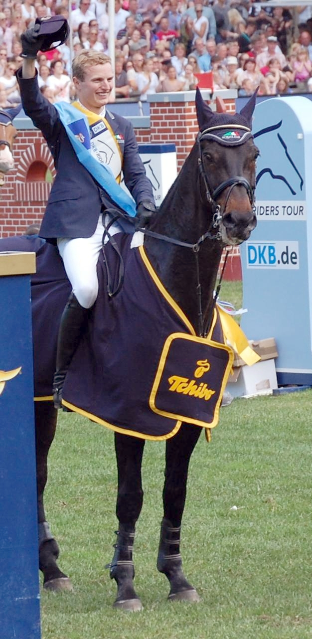 German rider Nisse Lüneburg with Calle Cool, winner of the 83rd German show jumping derby, Hamburg 2012